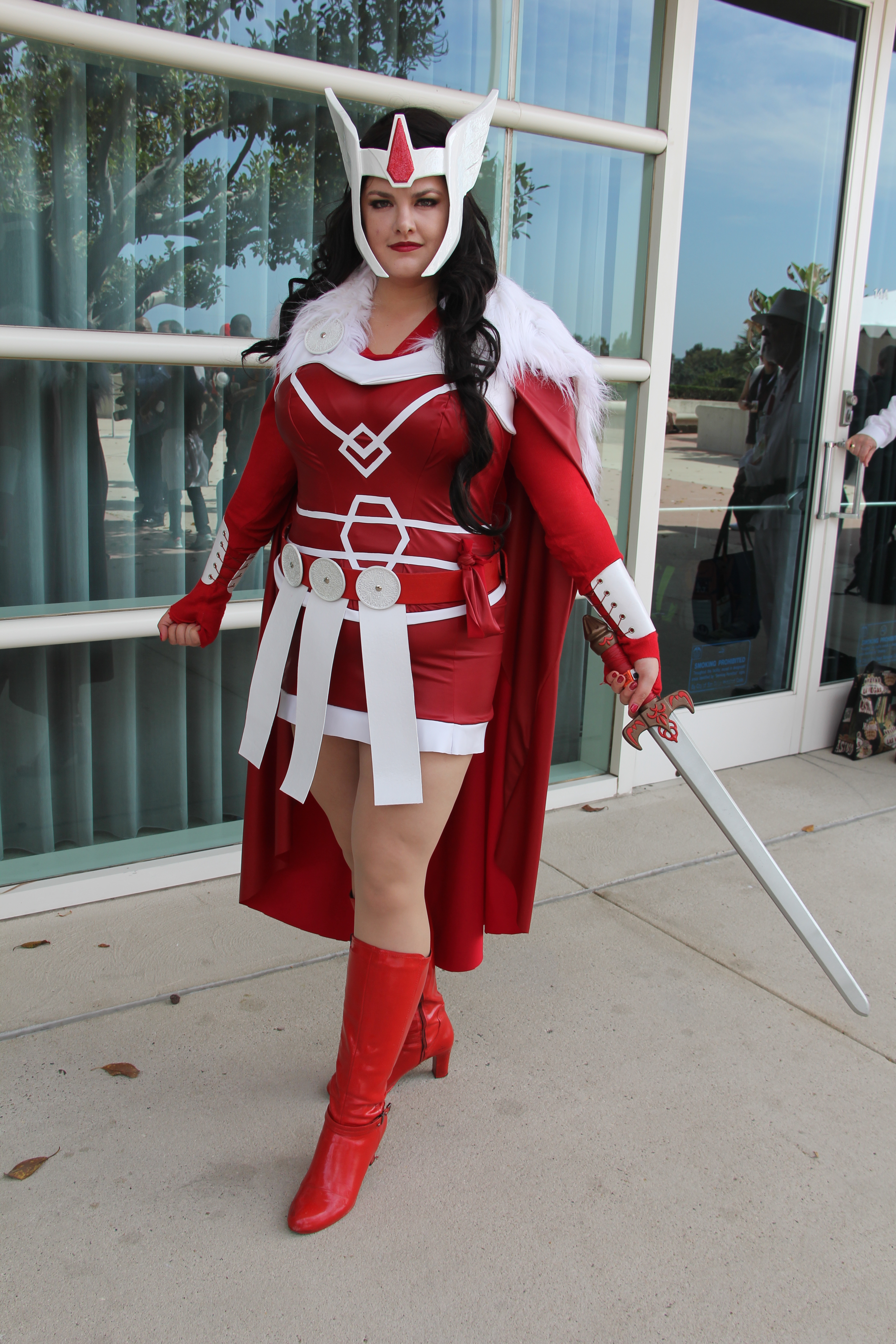 Cosplay at San Diego Comic Con 2015.